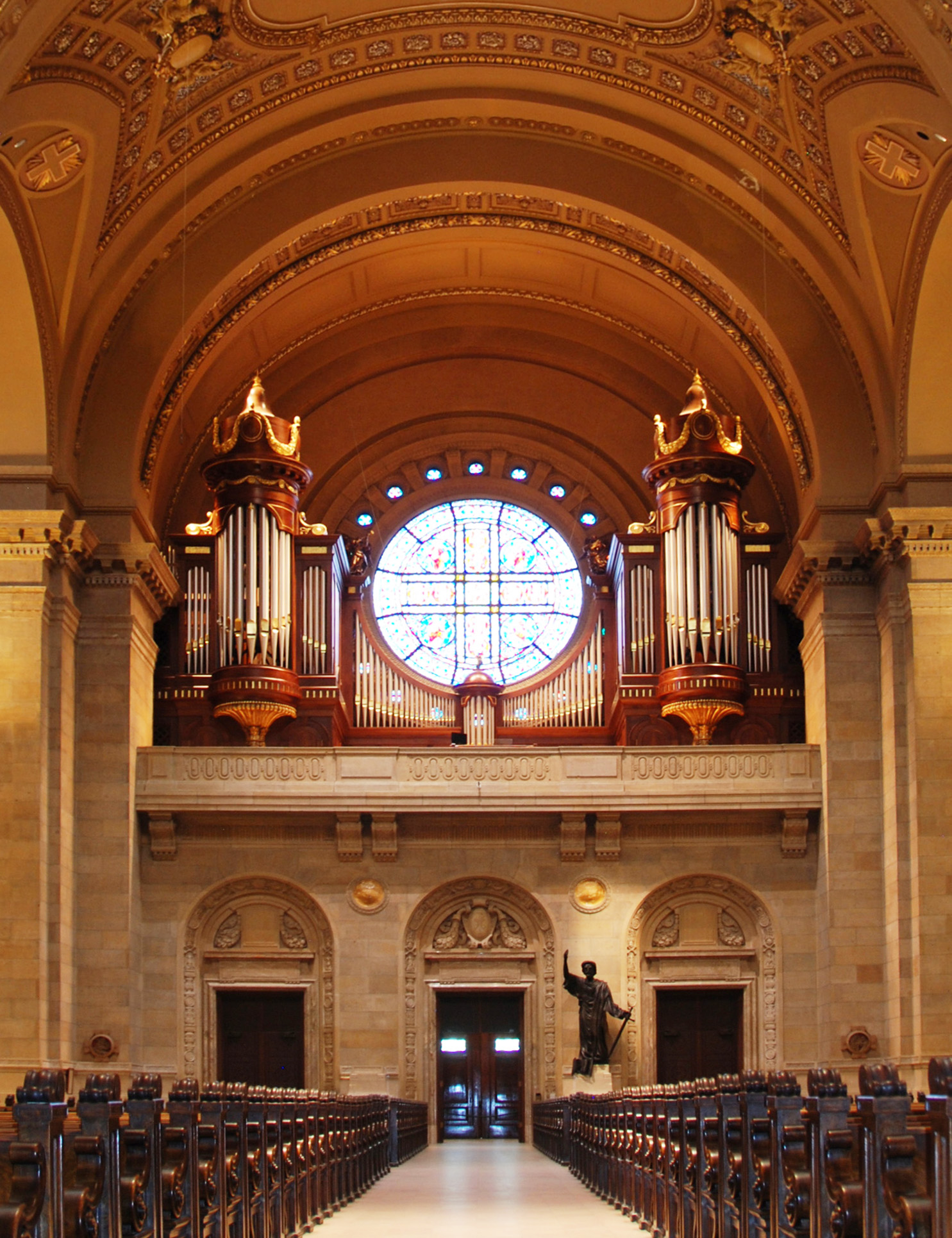 May 15, 2013 - Cathedral of Saint Paul Organ Case